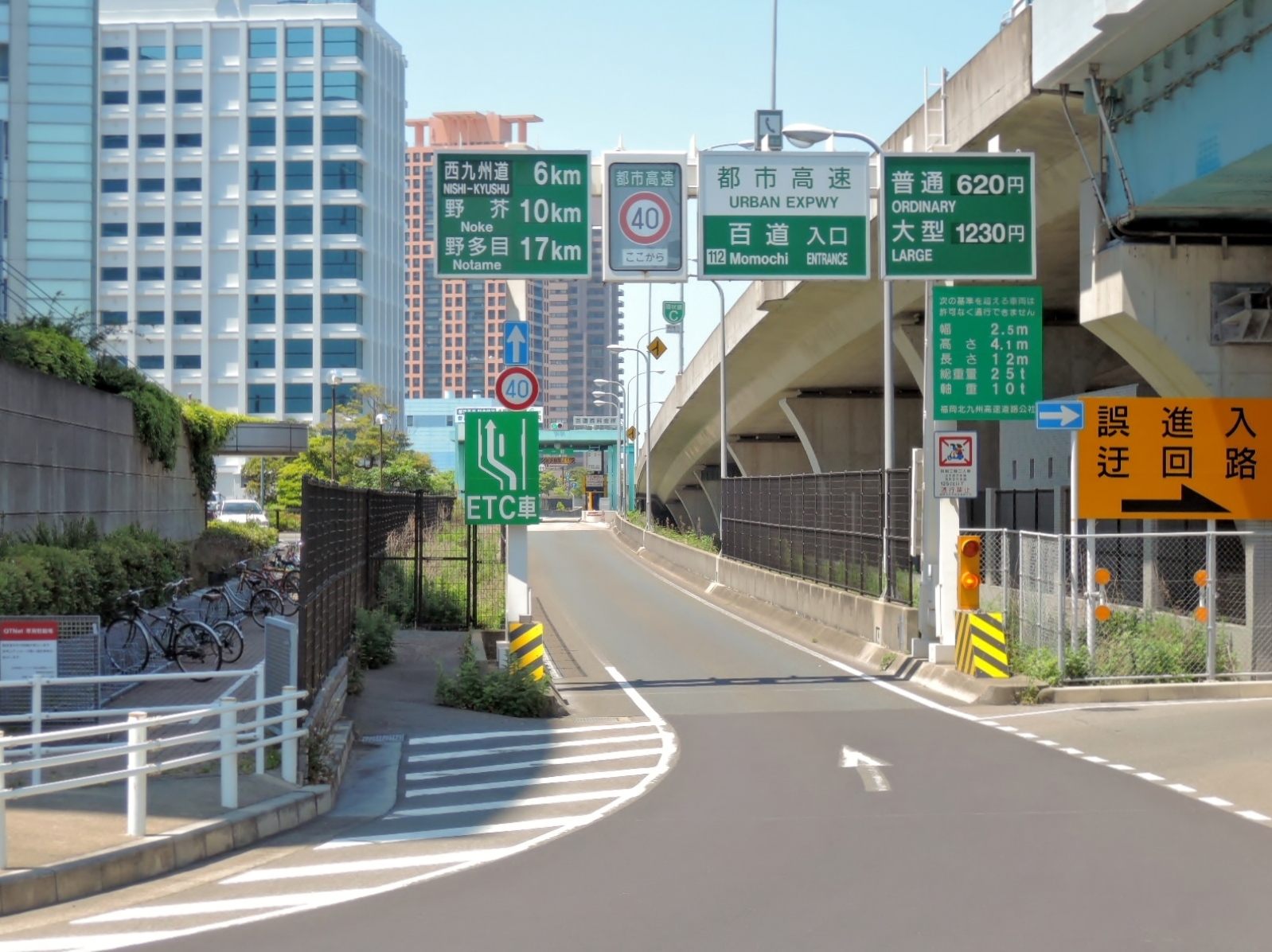 Momochi Interchange on the Fukuoka Expressway Circular Route, entrance for Noke and Fukushige